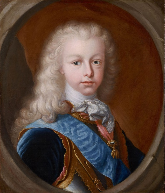 Infante Fernando, future King Fernando VI (1713-1759))